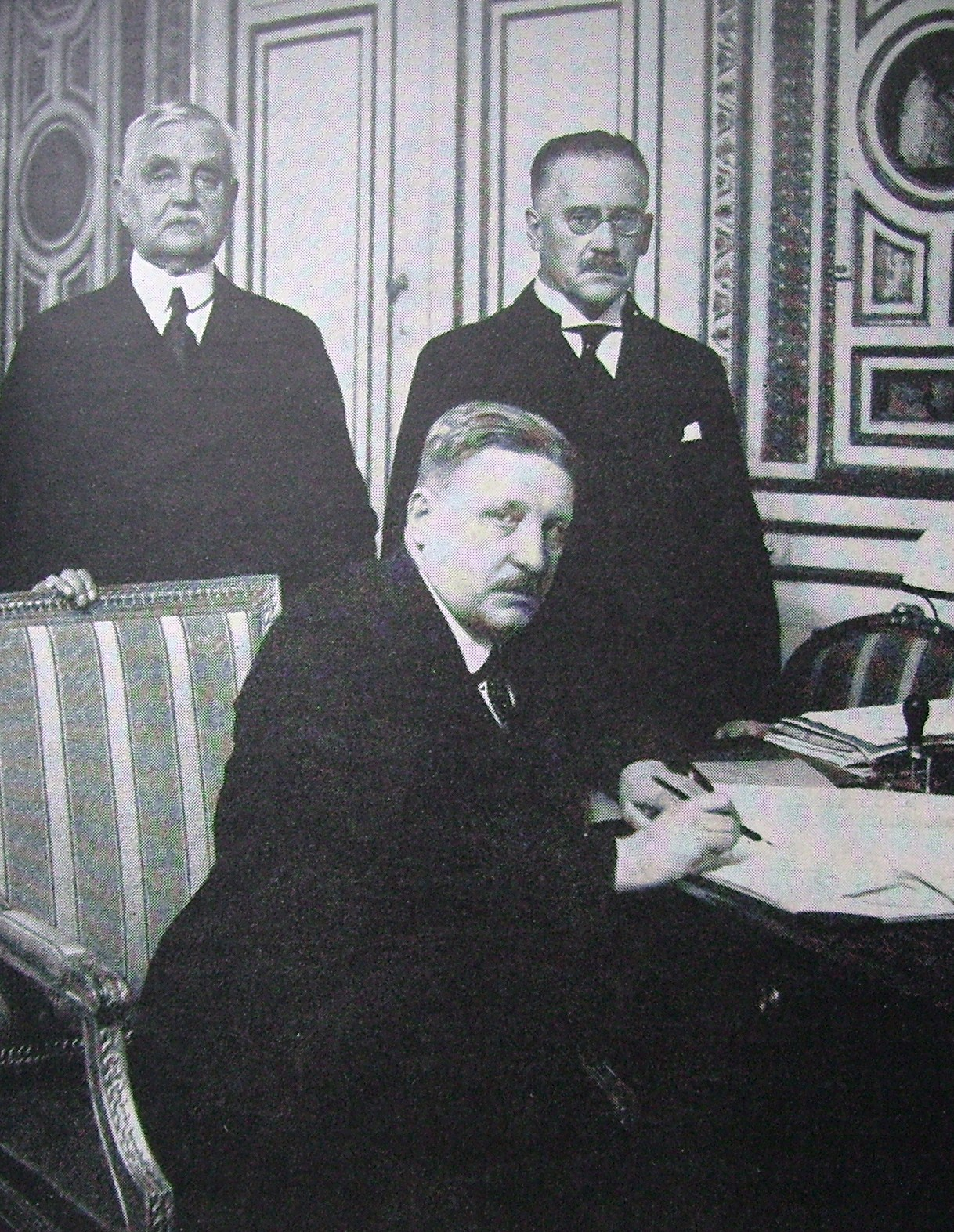 Picture of Eliel Löfgren, Swedish politician, and Werner Söderhjelm and Väinö Voionmaa, Finnish politicians